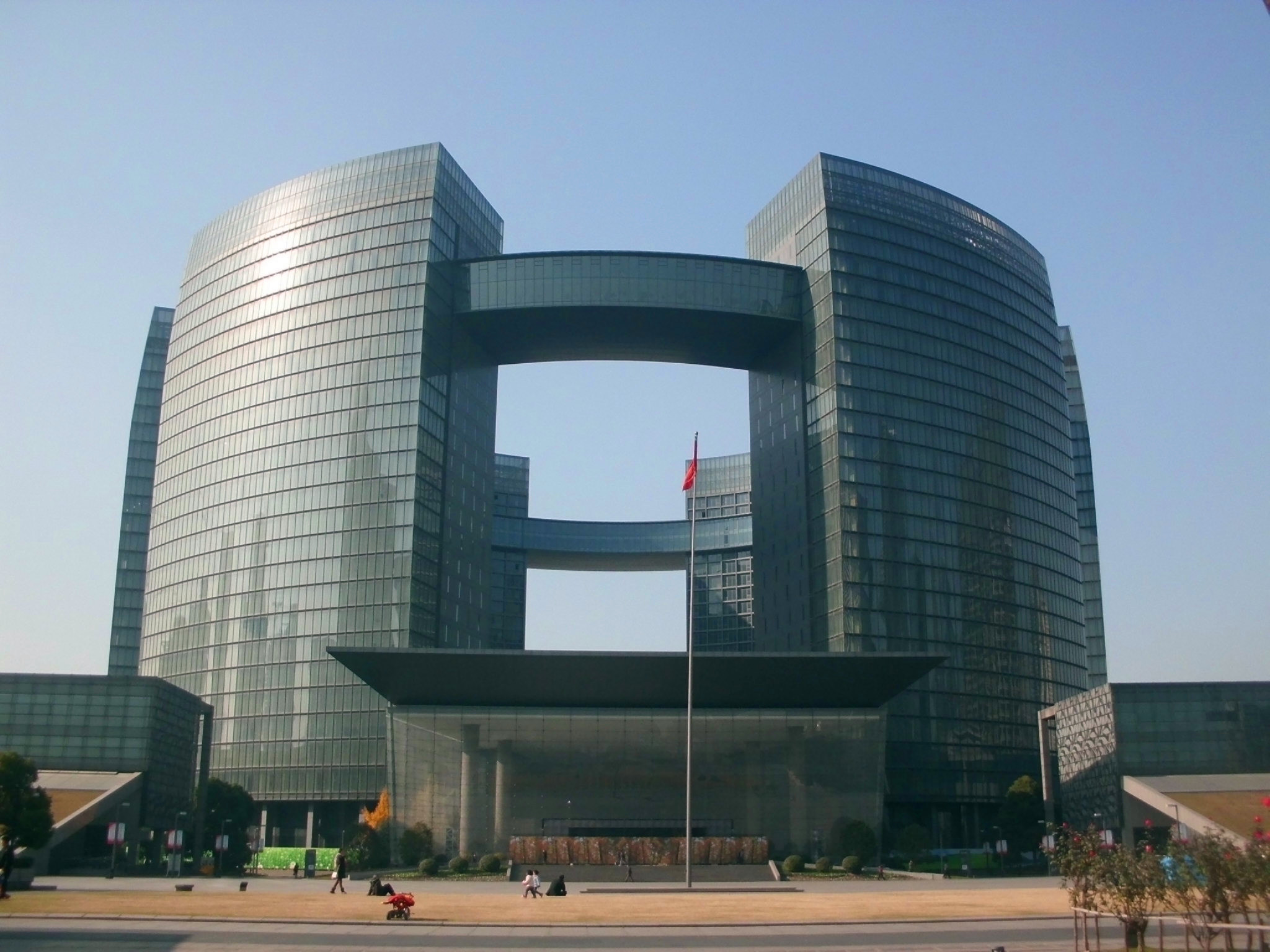 Hangzhou citizen center